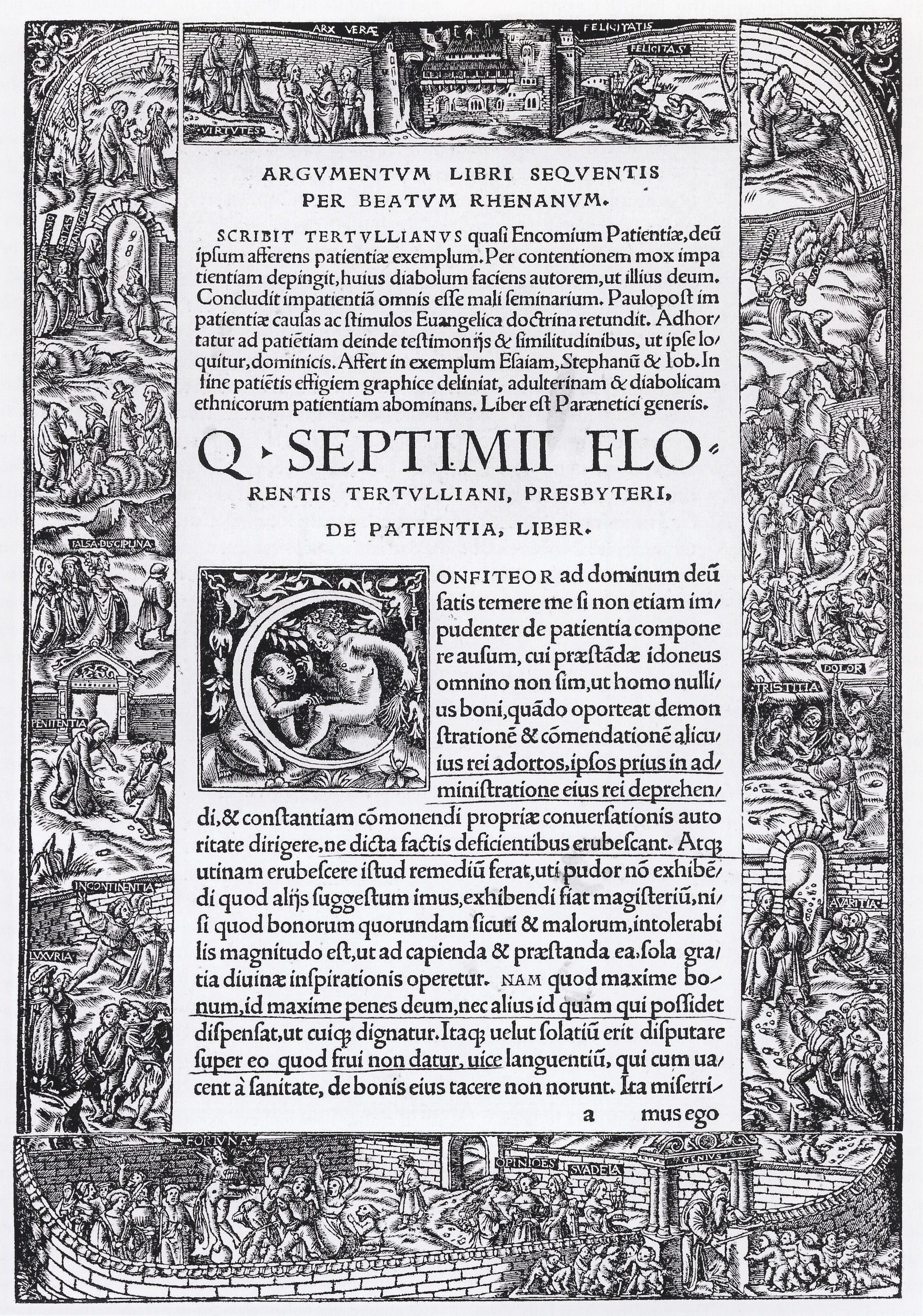 Title Page with the Tabula Cebetis, the so-called Cebes Tablet A. Metalcut, total area of print 26.4 × 17.9 cm, sheet 29.5 × 20.2 cm, Kunstmuseum Basel. First used in De patienta, in Quintus Septimius Tertullian's Opera ..., edited by Beatus Rhenanus, Basel: Johann Froben, July 1521. The Tabula Cebetis was a panel at a sanctuary of Chronos, explained in a dialogue attributed to Cebes, a student of Socrates. The panel set out the path living people must follow to achieve true character, interpreted here as beatitude (Christian Rümelin, in Müller et al, p. 491). Three variants (B, C, and D) were also cut, probably without Holbein's direct involvement, including one cut by Hans Herman.